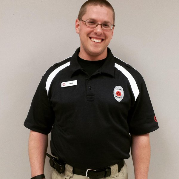 black polo, most stores use newer blue one